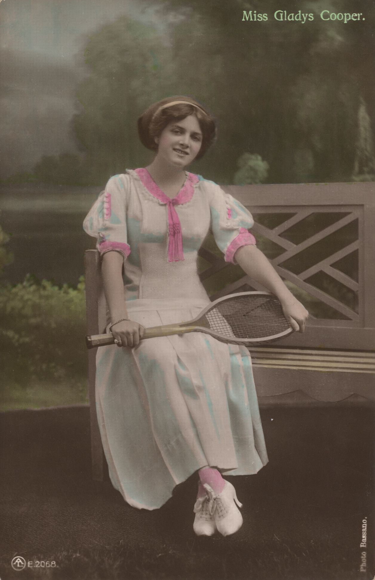 Gladys Cooper